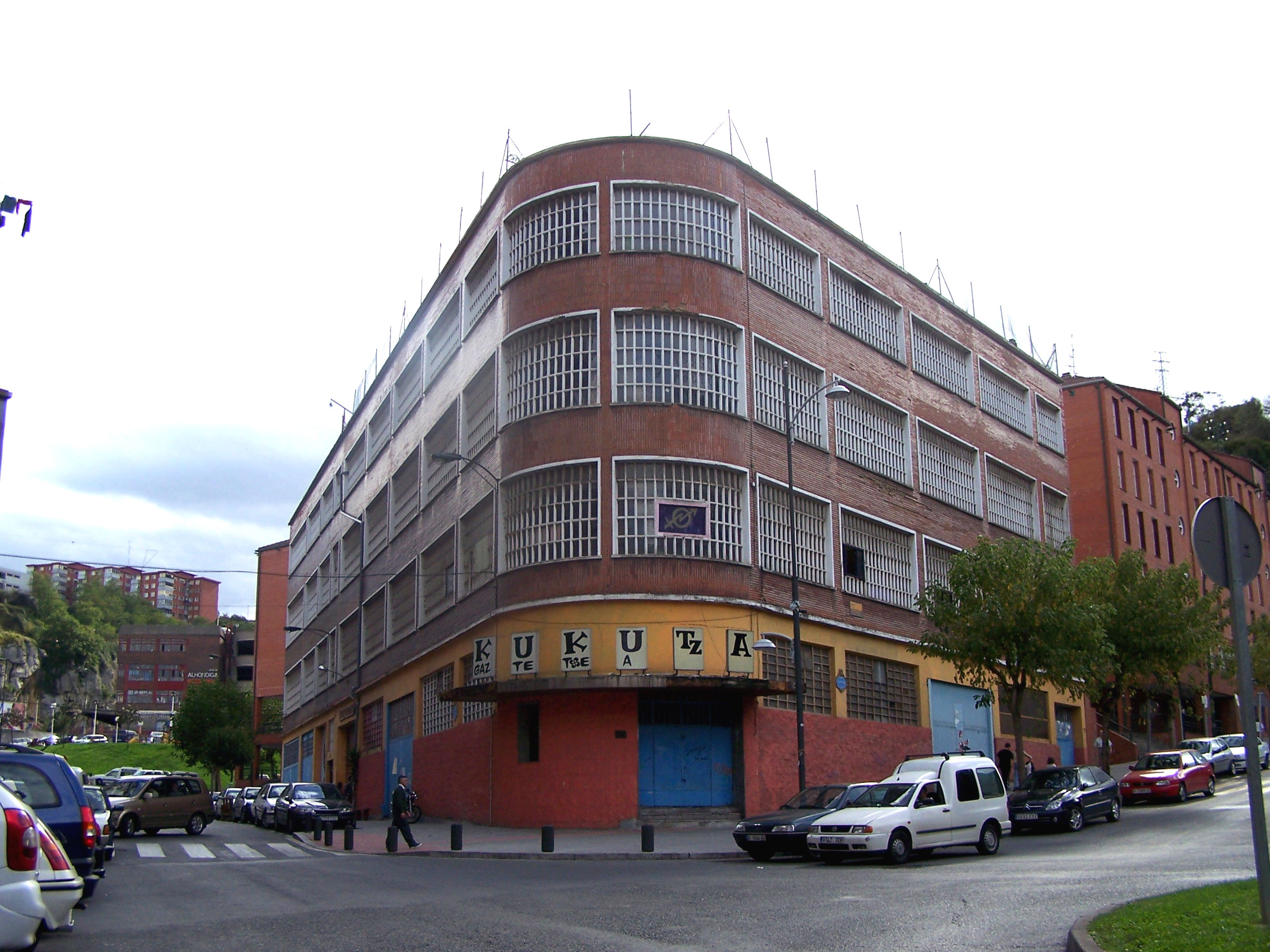 Image of the former occupied social center "Kukutza" in Bilbao.